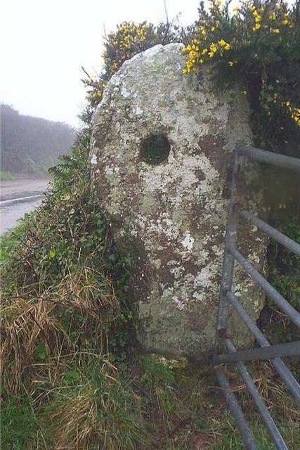 Holed Stone Gatepost This is a field gate near the Merry Maidens.